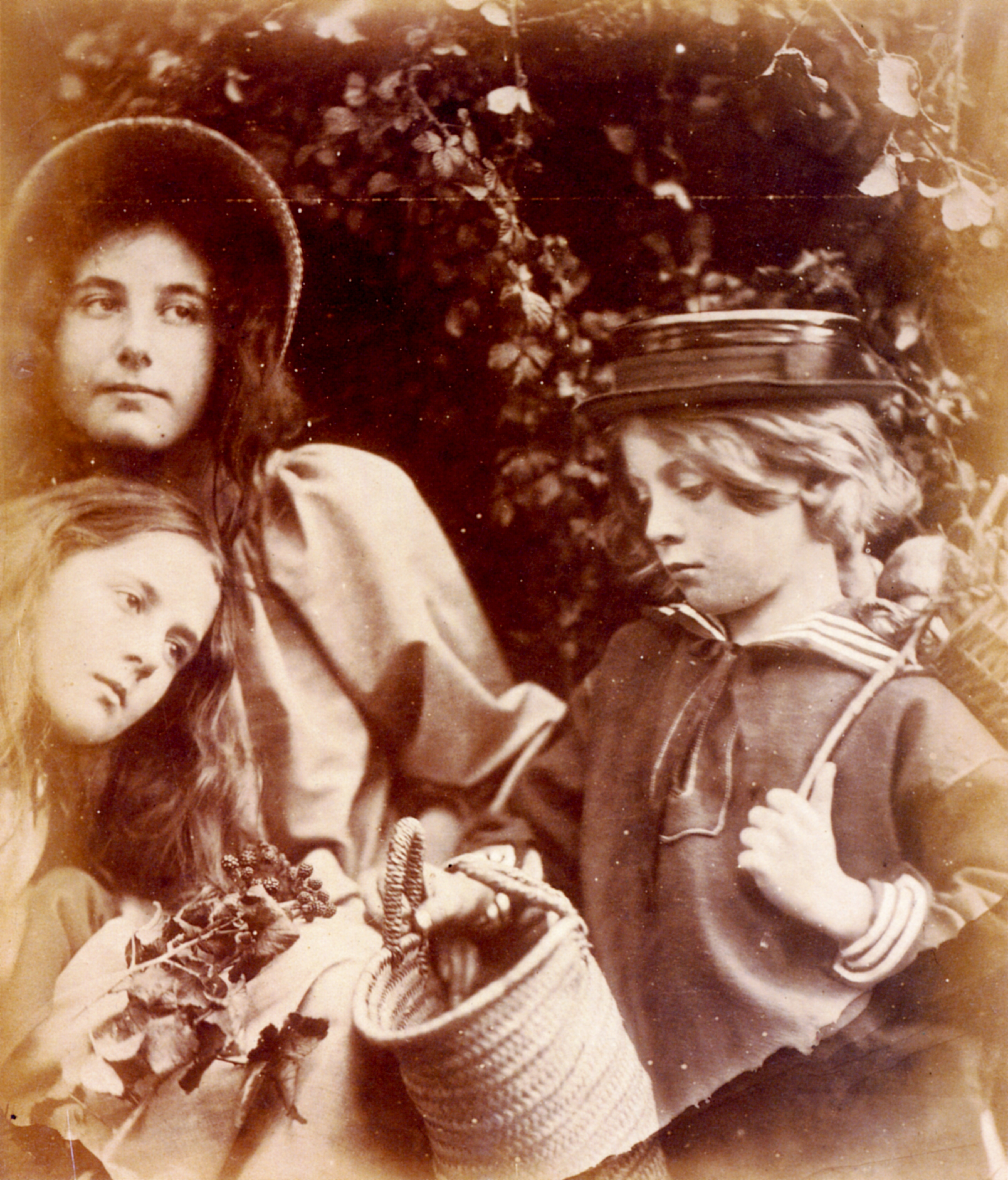 Blackberry Gathering. Elizabeth Keown, Kate Keown and Freddy Gould. Albumen print, 335 x 285mm (13 1/4 x 11 1/4").